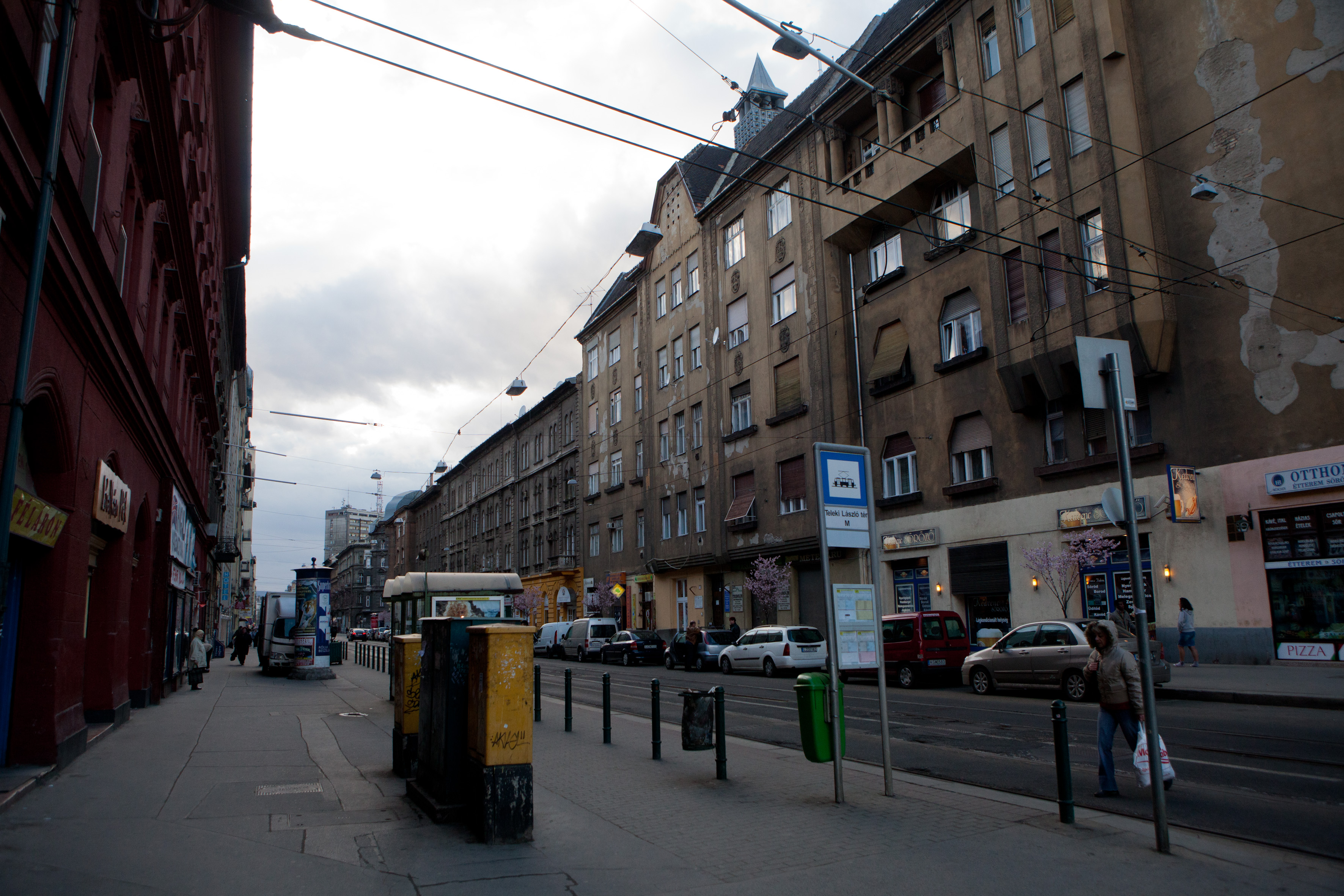 Népszínház utca